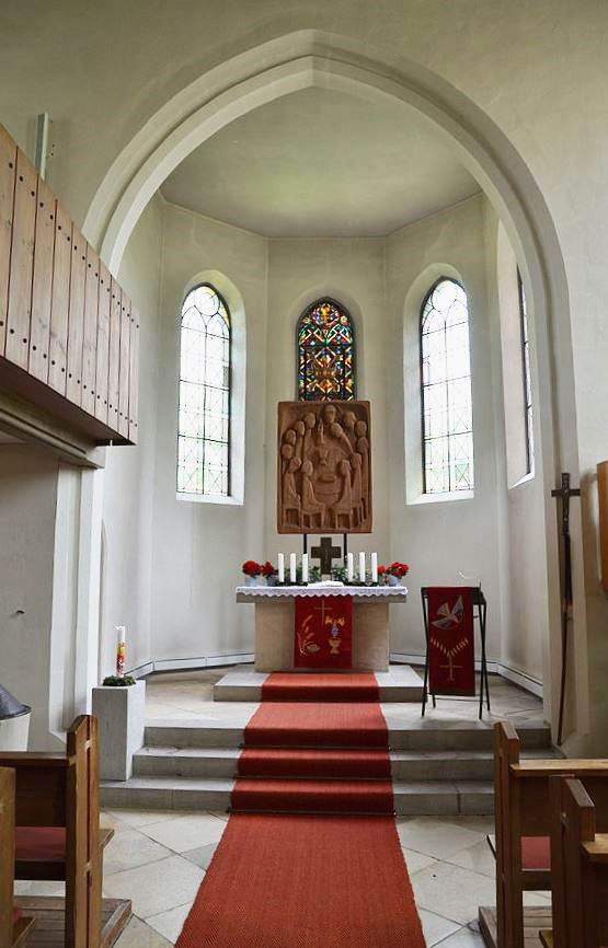 evang.-luth. Kirche St. Ursula in Colmberg